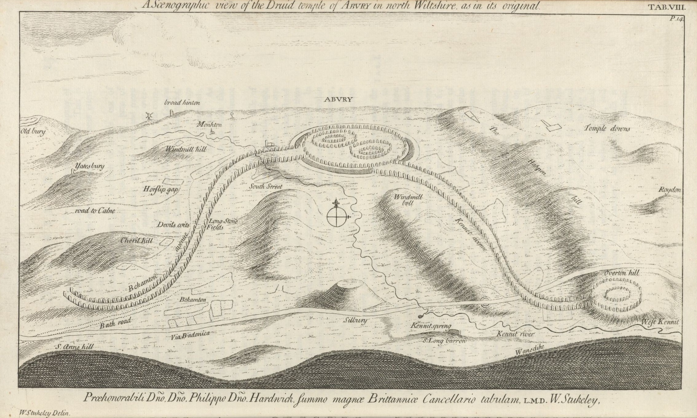 Illustration labeled "A Scenographic view of the Druid temple of Abury in north Wiltshire as in its original". From Abury, a temple of the British druids, and some others described (London: 1743), by William Stukeley (1687-1765). Arc 855.214*, Houghton Library, Harvard University